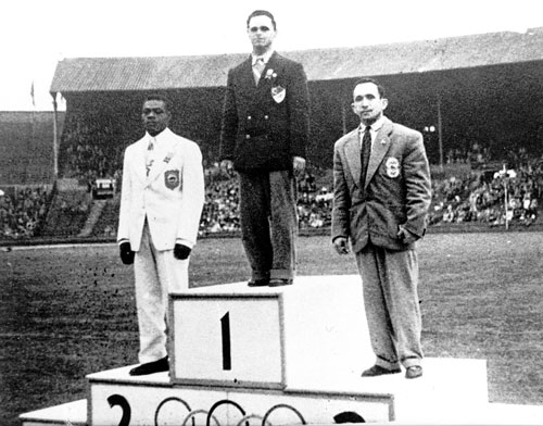 Weightlifting at the 1948 Summer Olympics, 60kg category, 1) Mahmoud Fayad (EGY), 2) Rodney Wilkes (TRI), 3) Jafar Salmasi (IRN)